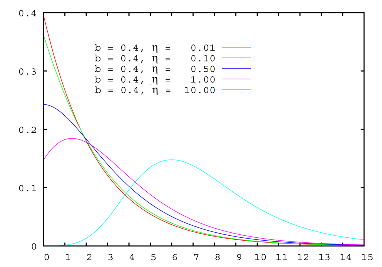 Graph of the shifted Gompertz distribution